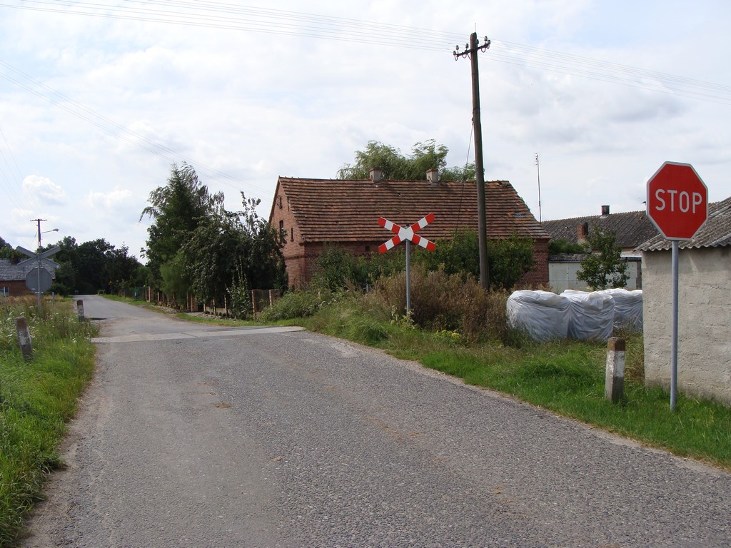 Pucołowo.